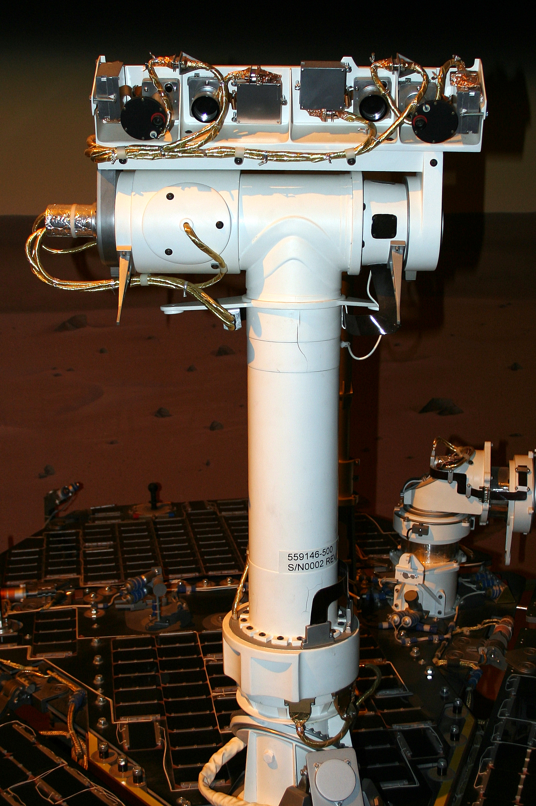 PanCam Mast Assembly (PMA) aboard Mars Exploration Rovers, from full scale reproduction on display at the Virginia Air and Space Center